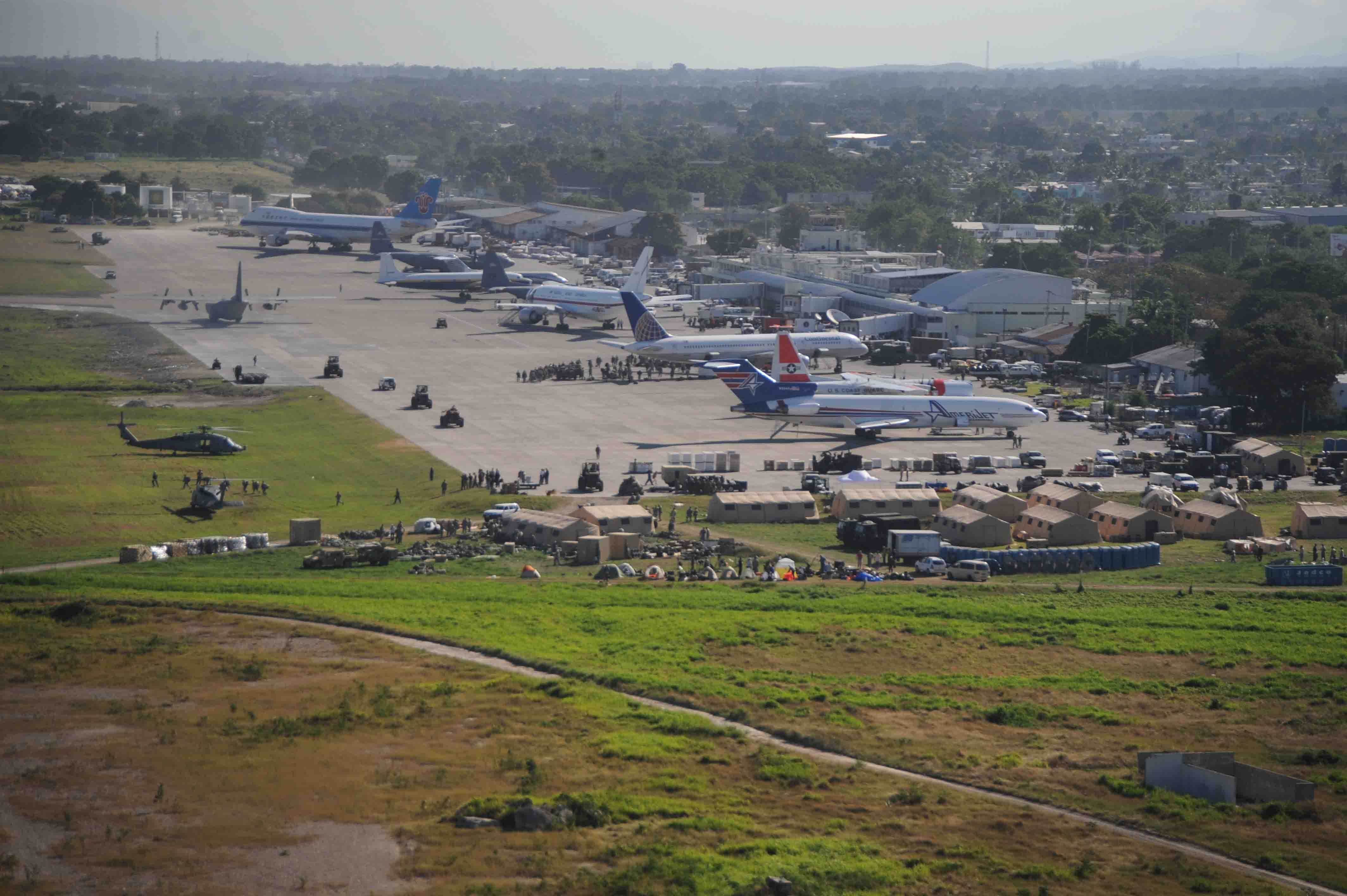 Airplanes wait for off-load to support in earthquake relief efforts at the Port-au-Prince International Airport.